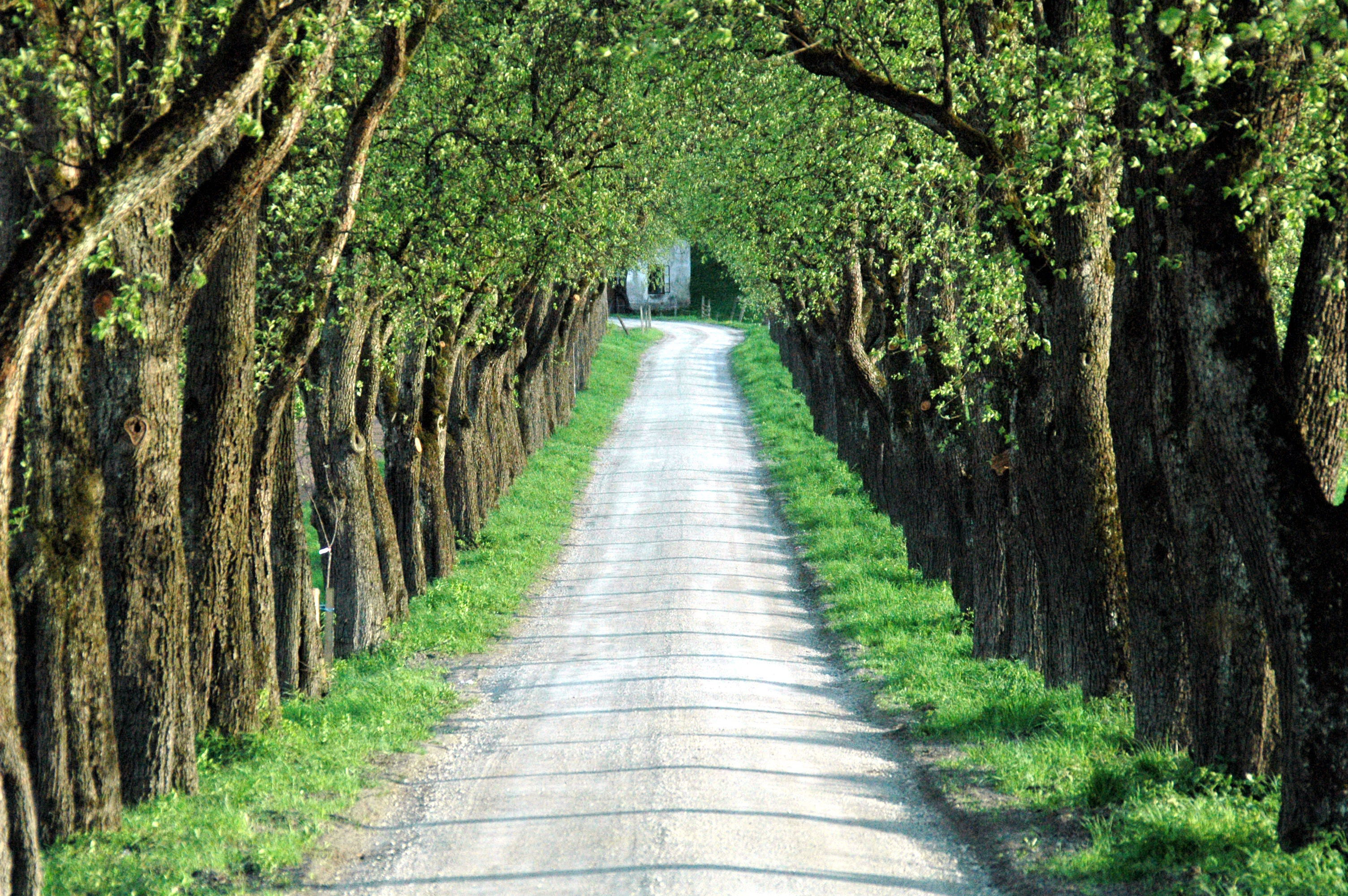 Pear tree avenue to Saint Martin, municipality Sankt Georgen am Längsee, district Sankt Veit, Carinthia, Austria, EU